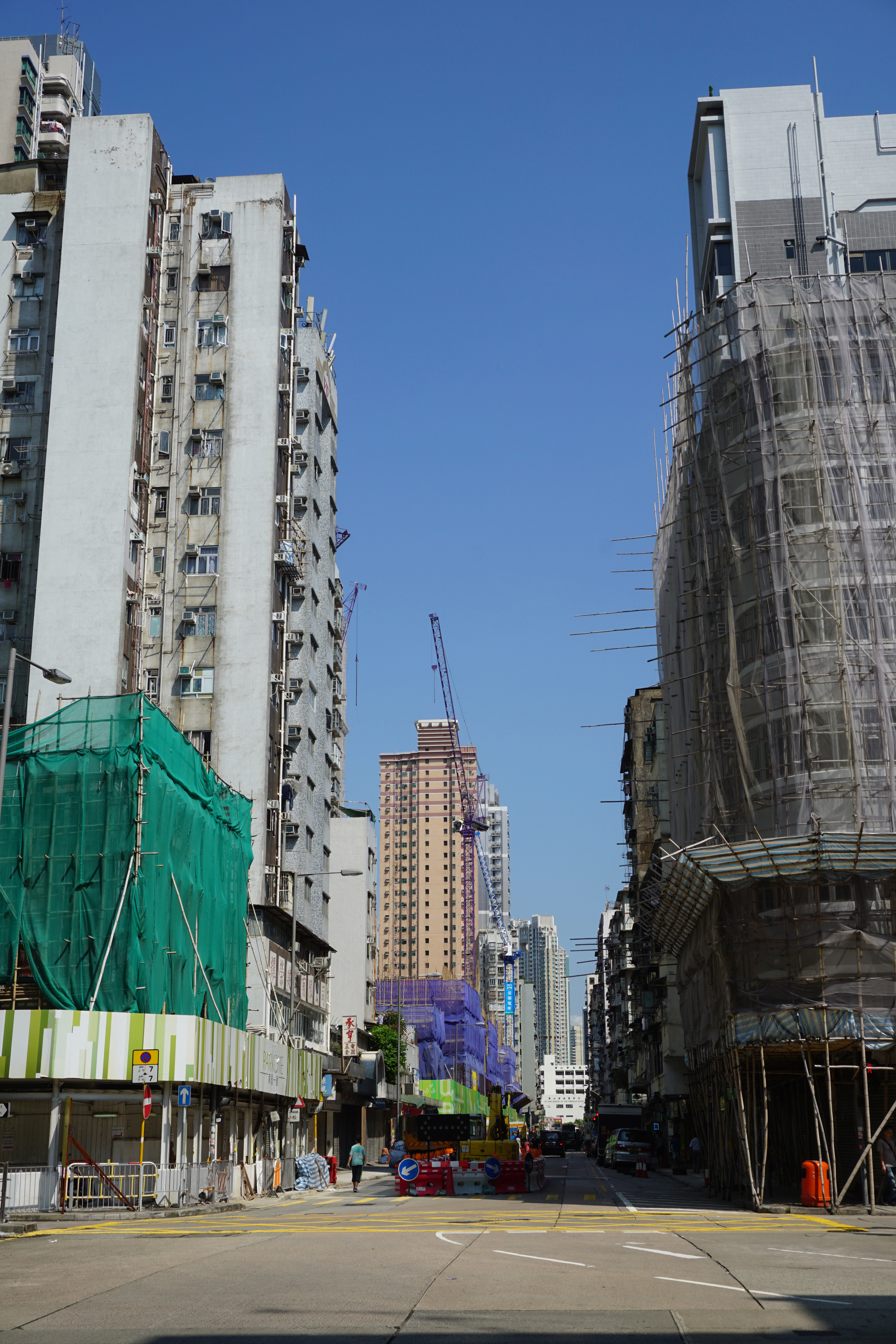 Hai Tan Street in Sham Shui Po, Hong Kong.